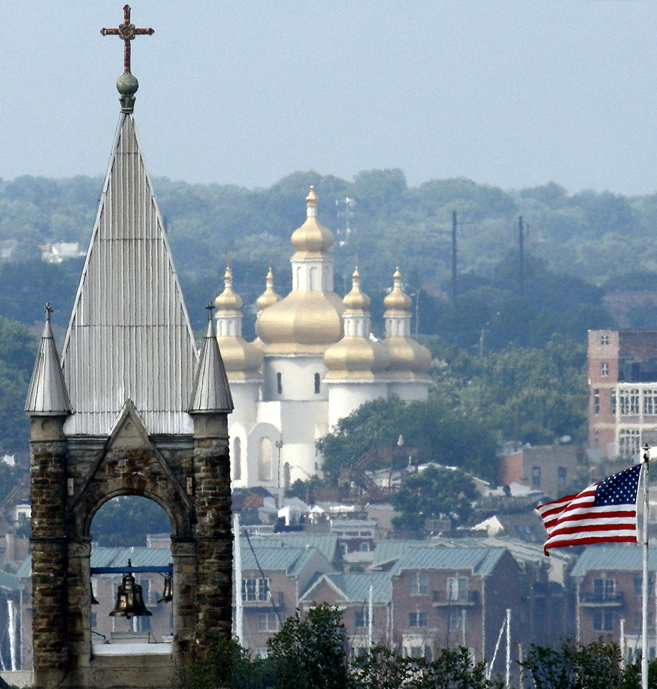 Church towers in Baltimore, Maryland. Our Lady Of Good Counsel Catholic Church in foreground, St. Michael the Archangel Ukrainian Catholic Church in background.